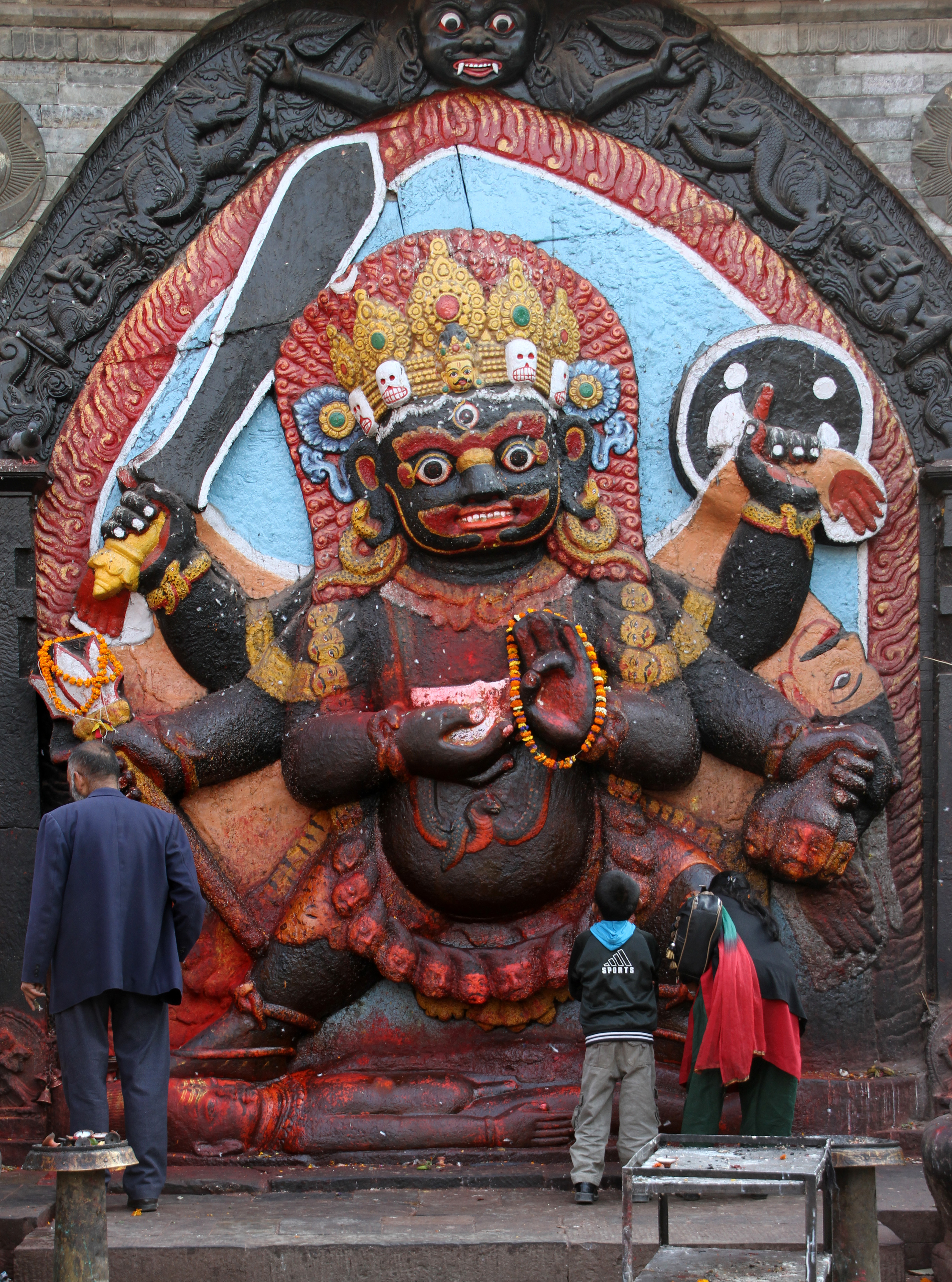 Kal Bhairav in Kathmandu